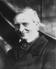 Louis Hyacinthe Duflost dit Hyacinthe au Théâtre du Palais-Royal